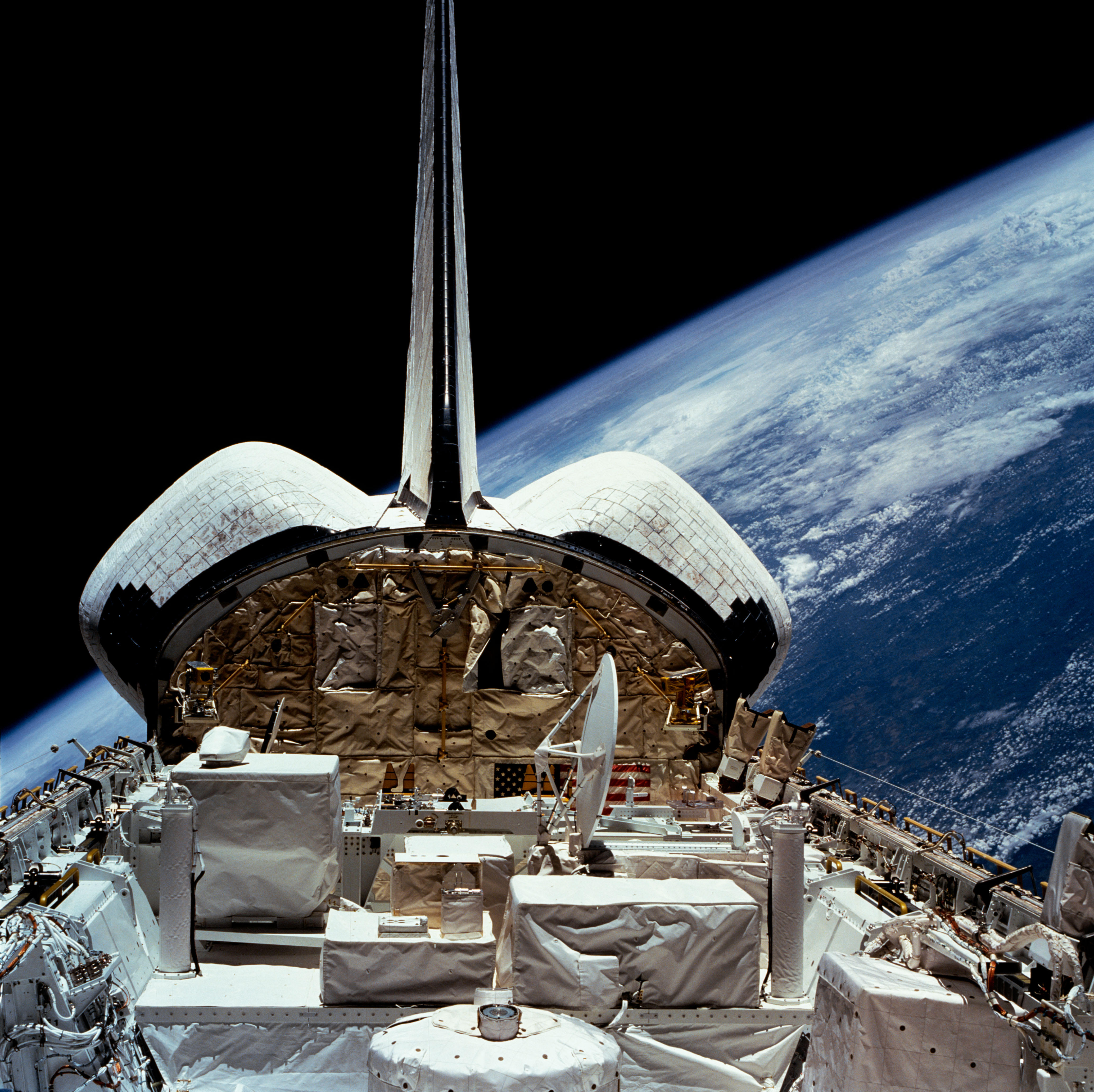 View of Discovery's payload bay showing the ATLAS-2 pallet on STS-56. During STS-56, the Atmospheric Laboratory for Applications and Science 2 (ATLAS-2) unpressurized spacelab pallet and its experiment equipment was documented in the payload bay (PLB) of Discovery, Orbiter Vehicle (OV) 103. ATLAS-2 equipment and instruments include: the igloo (center foreground, only the top is visible); the inverters and pump package (far right); port conical scan sensor (next to pump package at far right); the millimeter-wave atmospheric sounder (MAS) antenna (dish-shaped device at pallet center); the starboard conical scan sensor (small cylinder at far left); and the atmospheric trace module spectroscopy (ATMOS) (box behind conical sensor at far left). Smaller ATLAS-2 instruments located in the center of the pallet include (left to right): Active Cavity Radiometer Irradiance Monitor (ACRIM or ACR); Solar Constant Instrument (SOLCON); Solar Spectrum Instrument (SOLSPEC); and MAS (large box just below antenna). The Shuttle Pointed Autonomous Research Tool for Astronomy 201 (SPARTAN-201) is missing as it was in the midst of separation from OV-103 when the photo was made. The remote manipulator system (RMS) is deployed from its location on the port sill longeron. The PLB aft bulkhead, the vertical tail, and the orbital maneuvering system (OMS) pods backdropped against the Earth limb complete the scene.